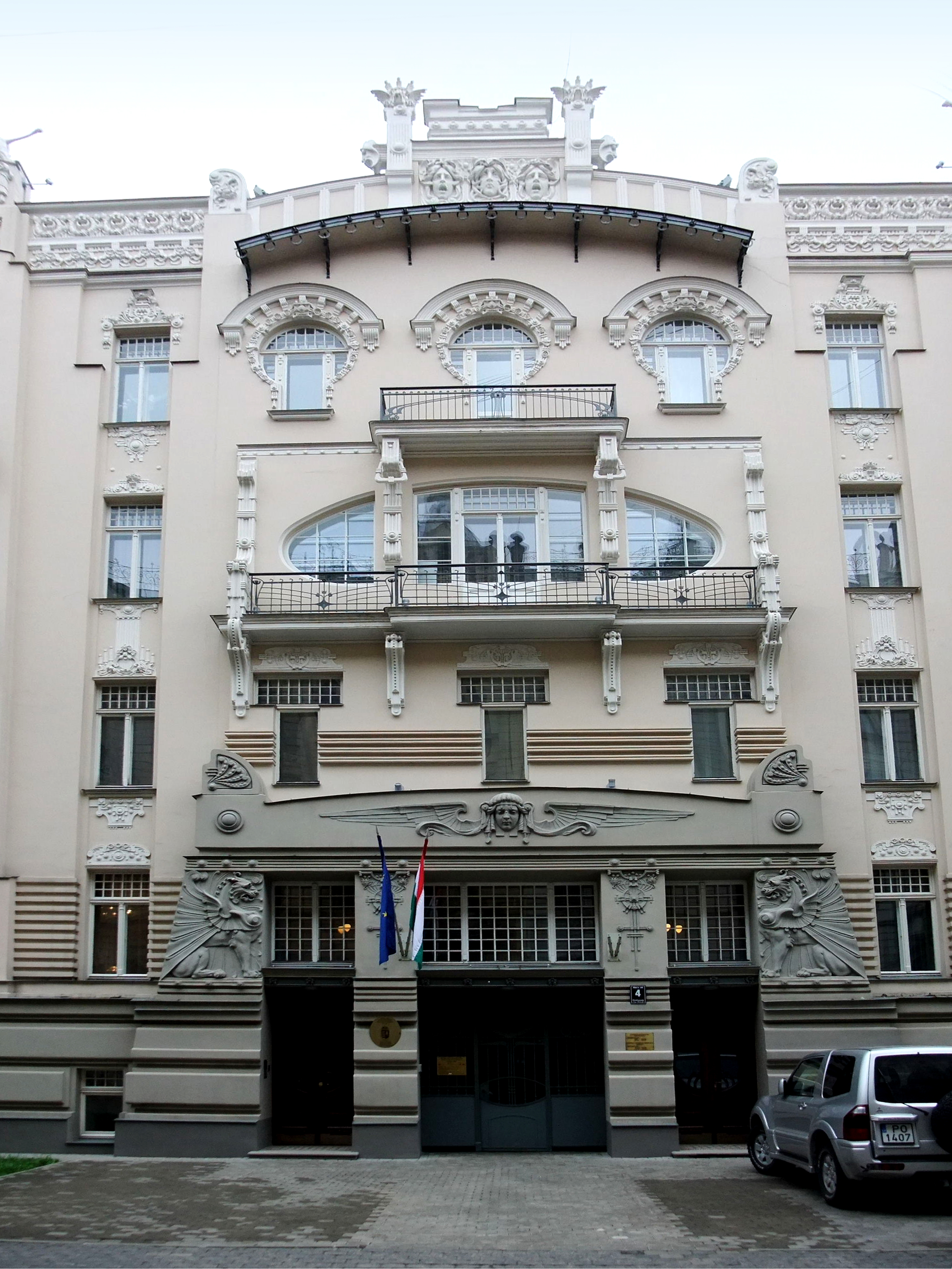 Art Nouveau in Alberta Street in Riga, Latvia